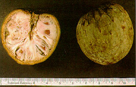 Picture of custard apple fruit.